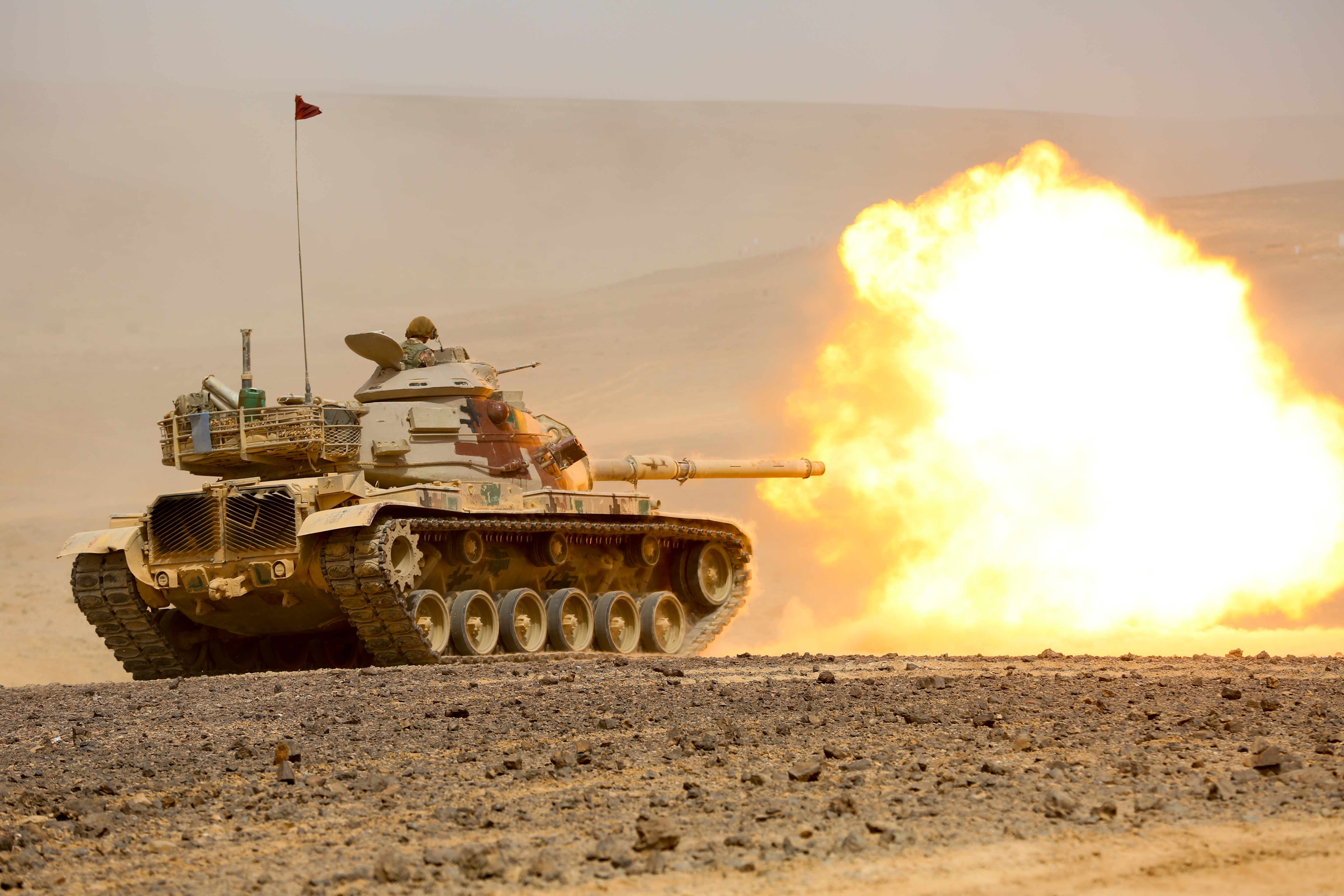 An M60A1 tank from the Royal Jordanian Armed Forces fires a round at a range in Wadi Shadiyah during a massive military demonstration in front of dignitaries and media, May 18. HRH Prince Feisal, the Supreme Commander of the JAF, Chairman of the Joint Chief-of-Staff Gen. Mashal Al Zaben and Gen. Lloyd Austin III, head of the U.S. Central Command, were among those who attended the culminating event of the two-week, multinational Exercise Eager Lion 2015. In addition to the U.S. and the Hashemite Kingdom of Jordan, participating nations included Australia, Bahrain, Belgium, Canada, Egypt, France, Iraq, Italy, Kuwait, Lebanon, Pakistan, Poland, Qatar, Saudi Arabia, the United Arab Emirates, the U.K. and representatives from NATO.